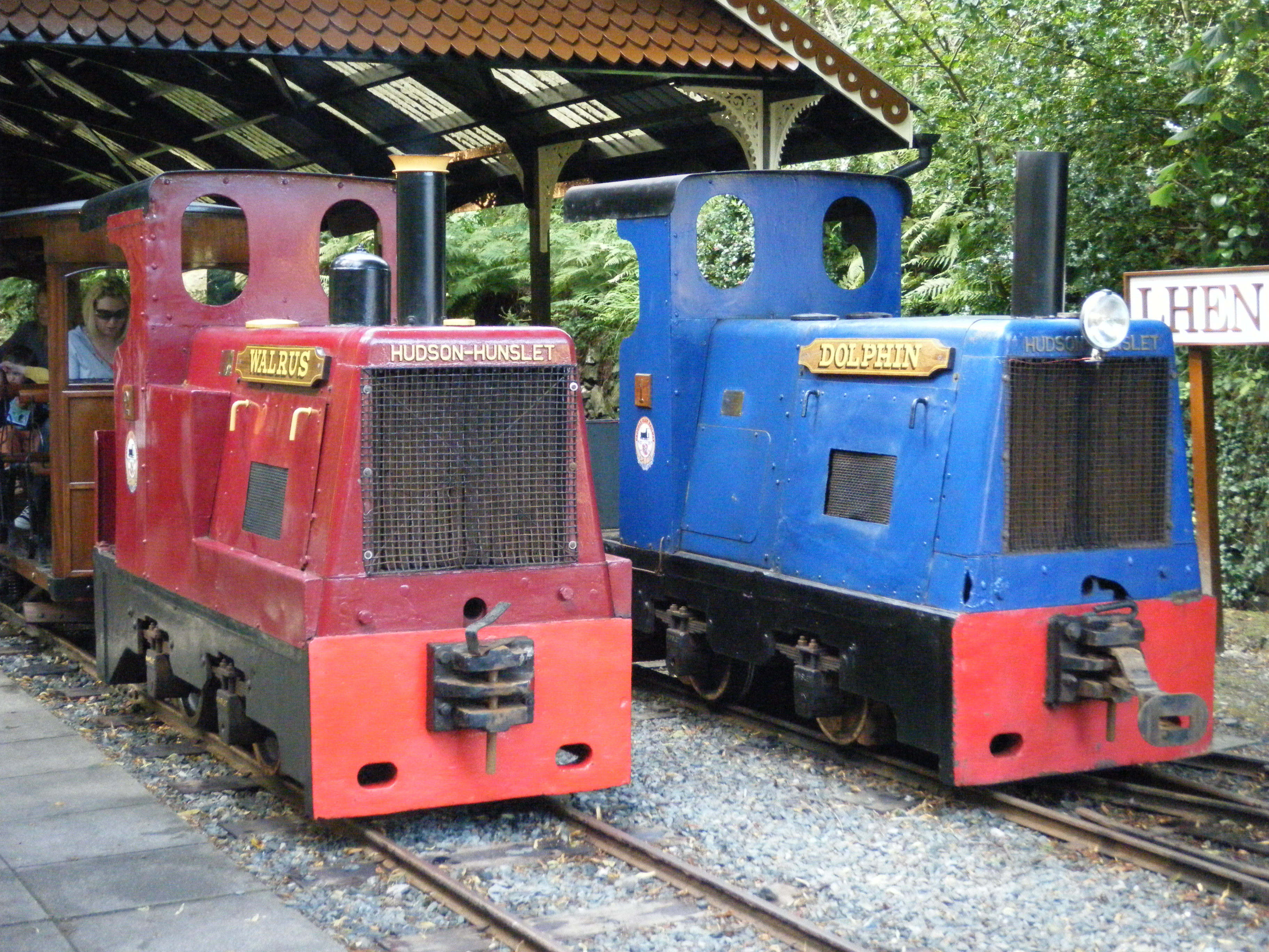 The two resident Hudson-Hunslet diesel locomotives on the Groudle Glen Railway.